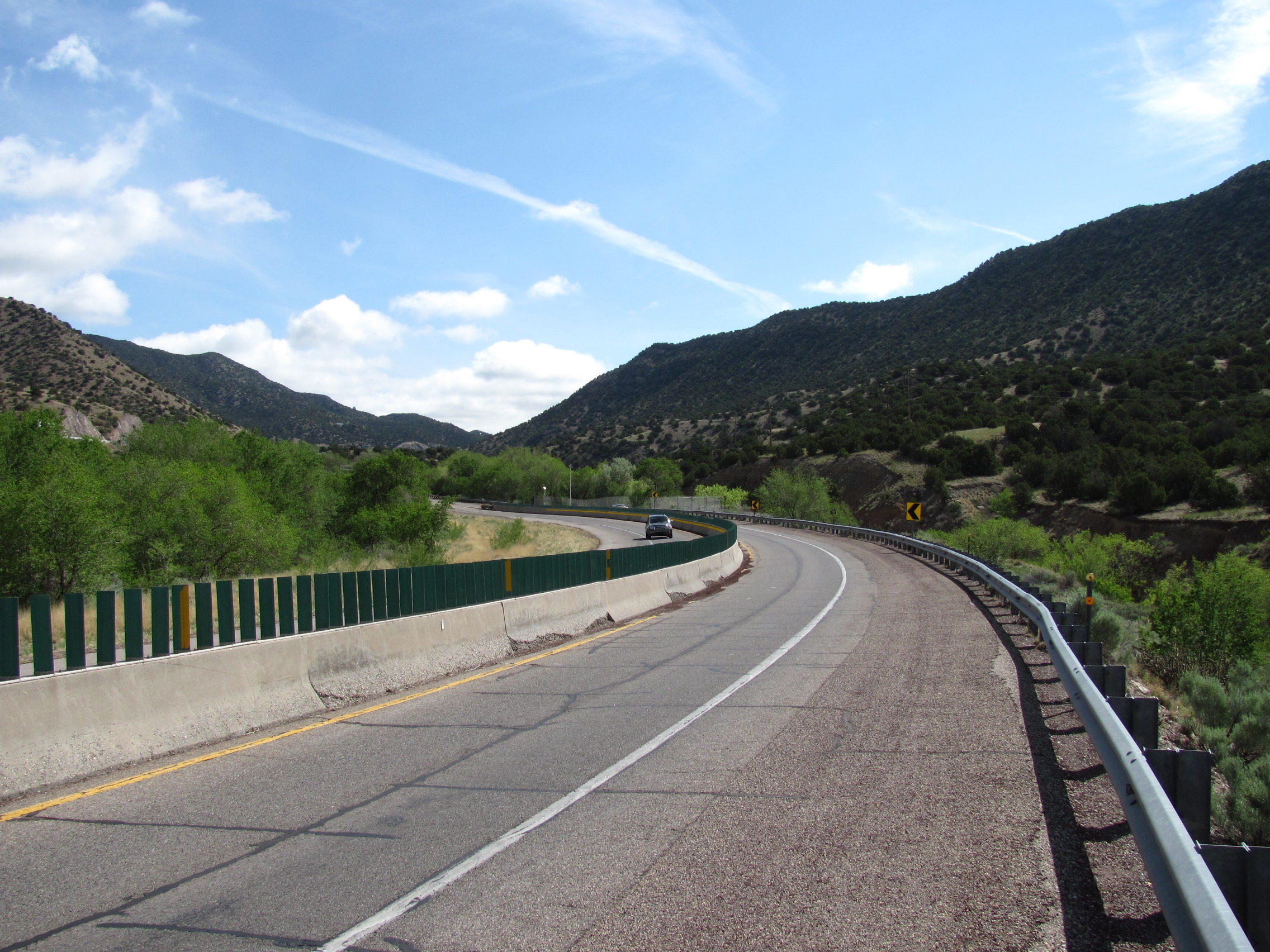 Deadman's Curve on Old Route 66, Tijeras Canyon, Bernalillo County New Mexico